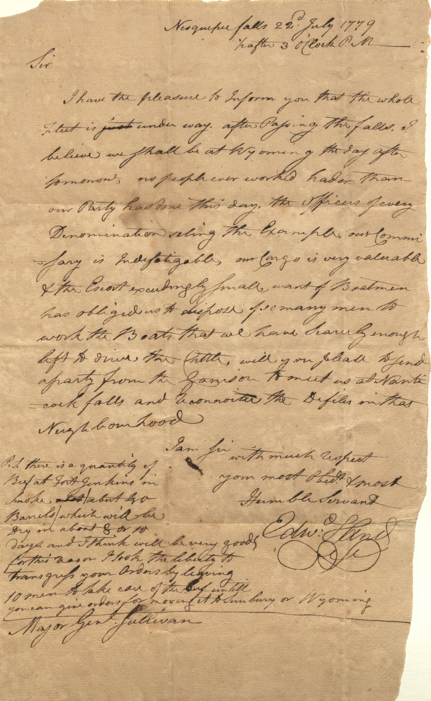 Correspondence from General Edward Hand to Major General John Sullivan on July 22, 1779. Sent from Nesquepee Falls.